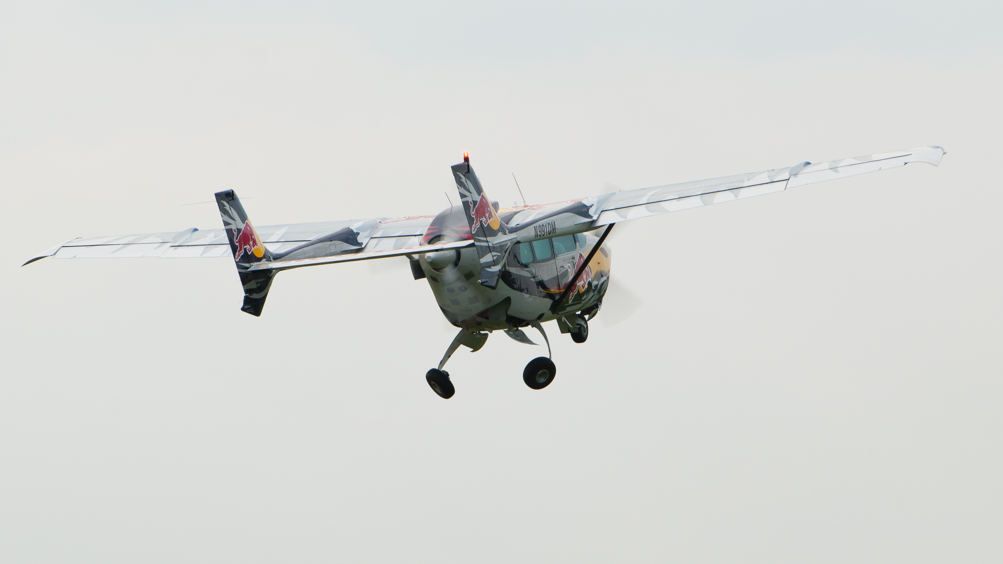 The Flying Bulls Cessna 337D Super Skymaster PushPull (reg. N991DM, cn 33701177, built in 1969). Engine: 2 × Continental 10 - 360CB.